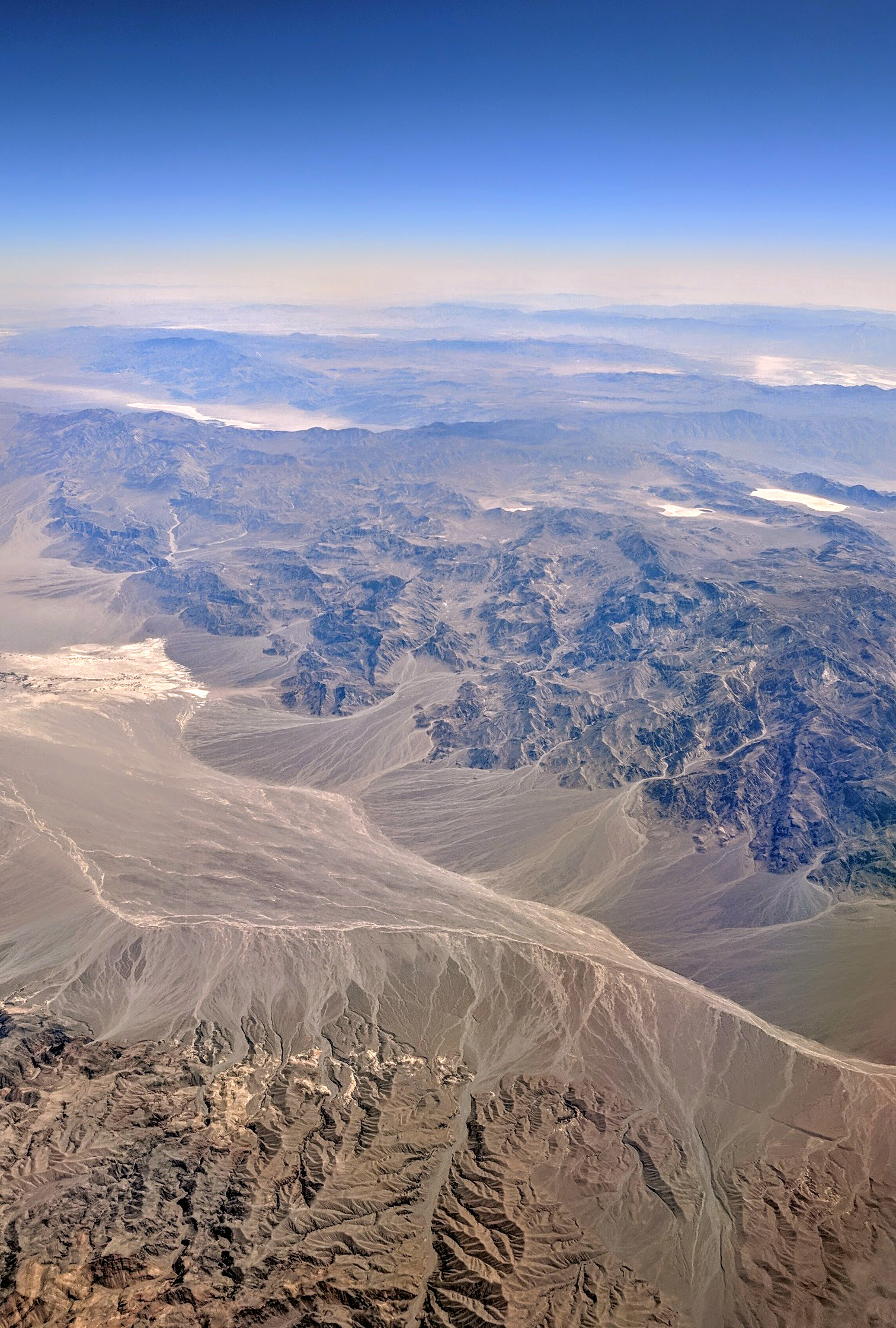 Aerial view, looking southwest, of Death Valley north of Stovepile Wells, the area known as Death Valley Wash. On both sides of the central flat area the leads to the sand dunes at left center, bajadas (sloping merged alluvial fan areas) are evident.